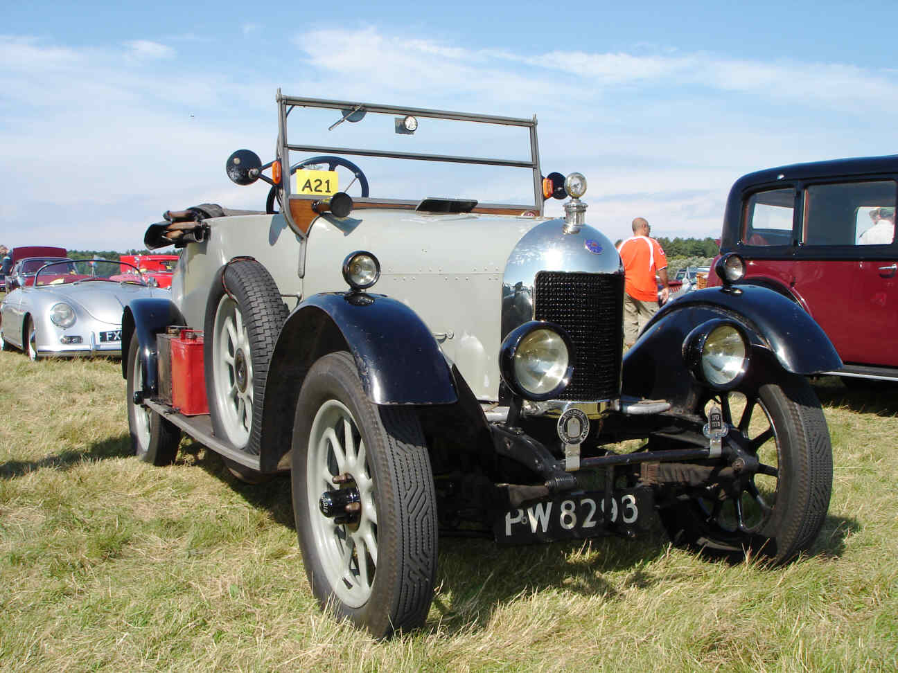 Morris Cowley Bullnose car from 1926(DVLA) first registered 30 June 1926